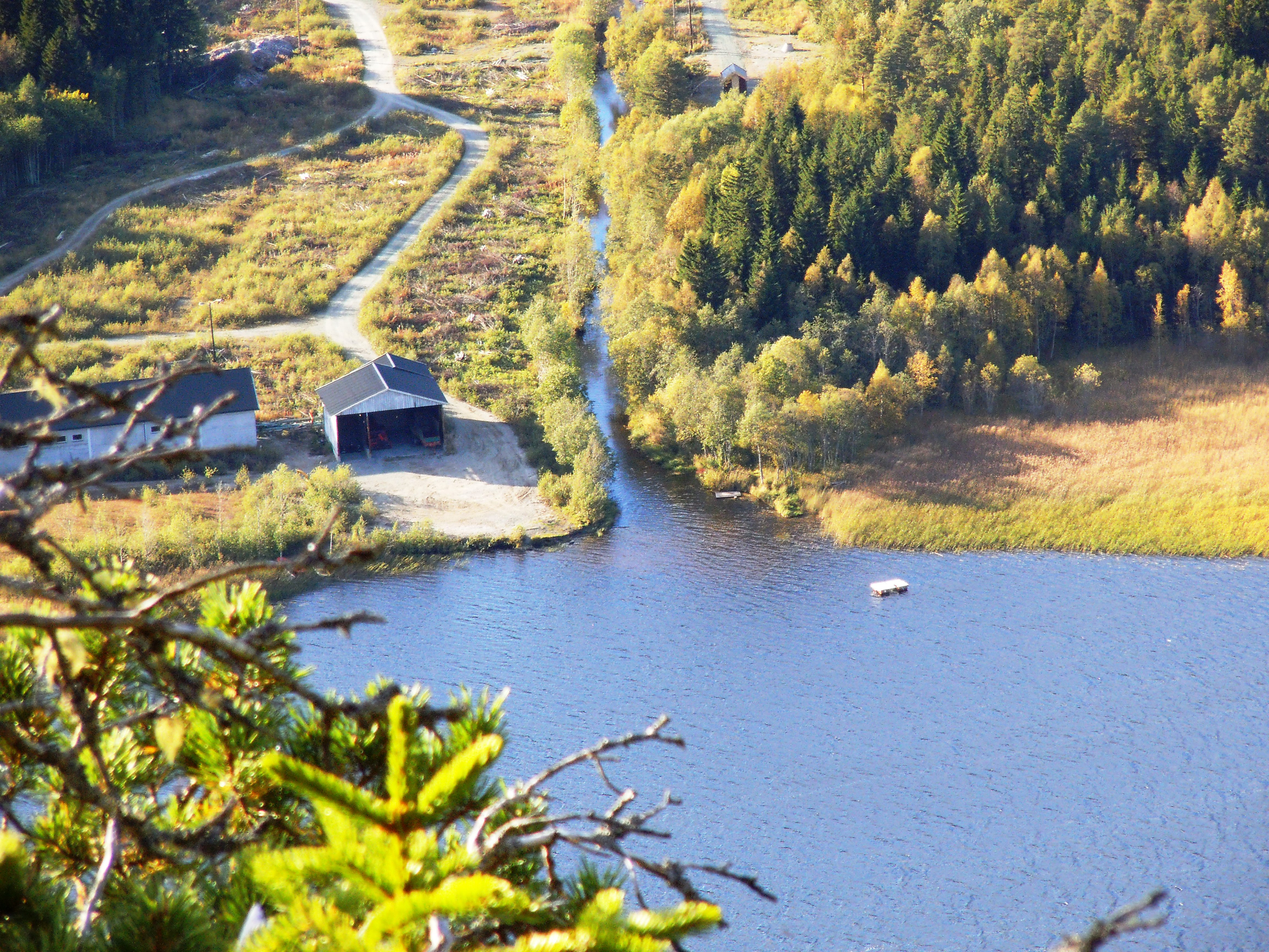 The river Bøvra as it flows into the lake Gaustadvatnet.